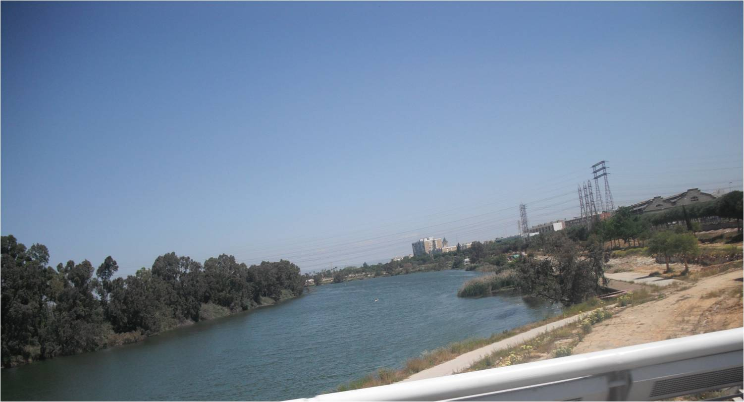 Guadalquivir in sevilla May 2010